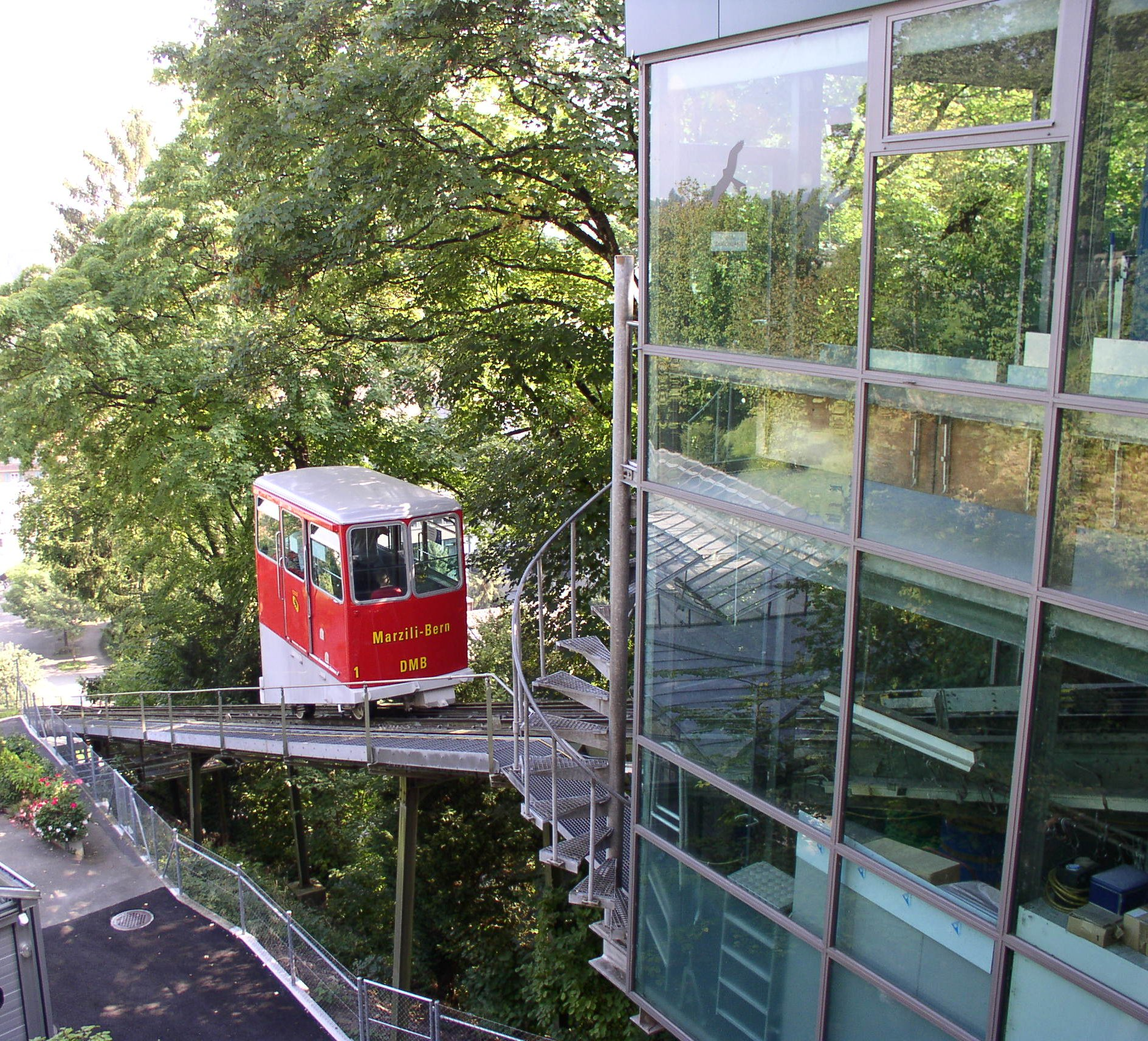 Description: Marzilibahn in Bern Source: photo taken by me, September 2005 Photographer: Baikonur